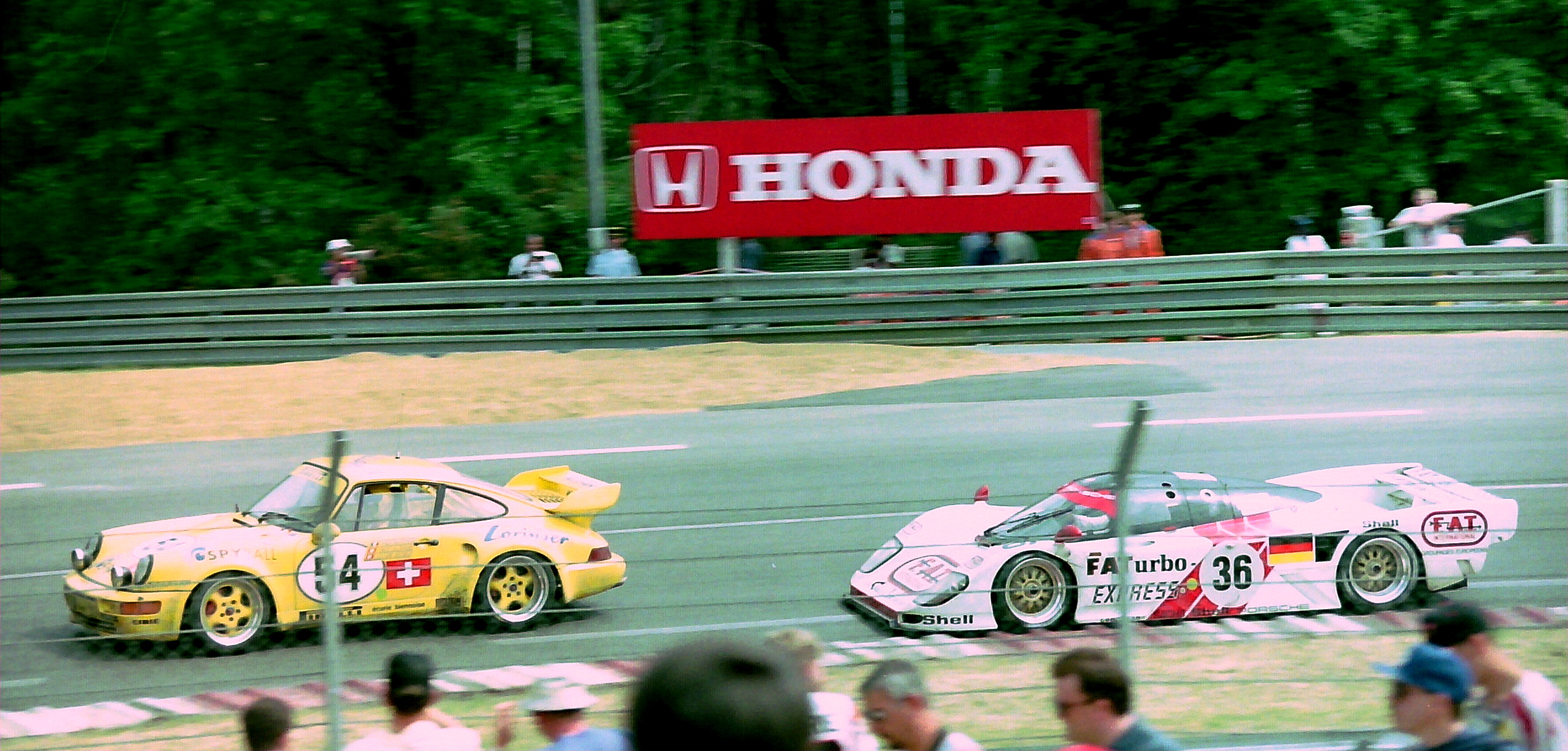 Dauer 962 LM - Mauro Baldi, Yannick Dalmas & Hurley Haywood chases Porsche 911 Carrera RSR - Enzo Calderari, Lilian Bryner & Renato Mastropietro in the Esses at the 1994 Le Mans